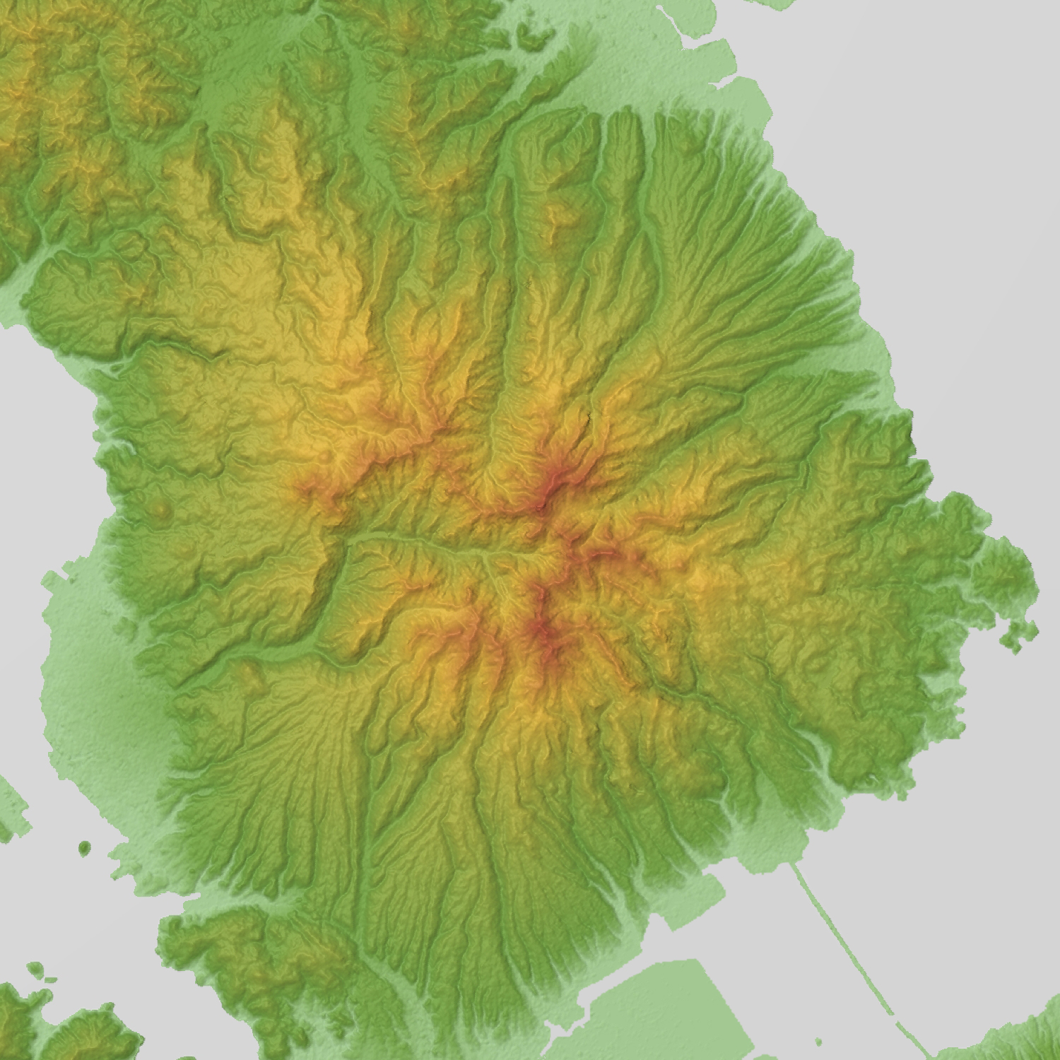 Taradake Volcano in the border between Nagasaki and Saga Prefectures in Kyushu, Japan.